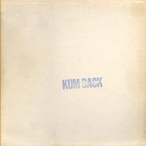 Cover of the Beatles bootleg album Kum Back